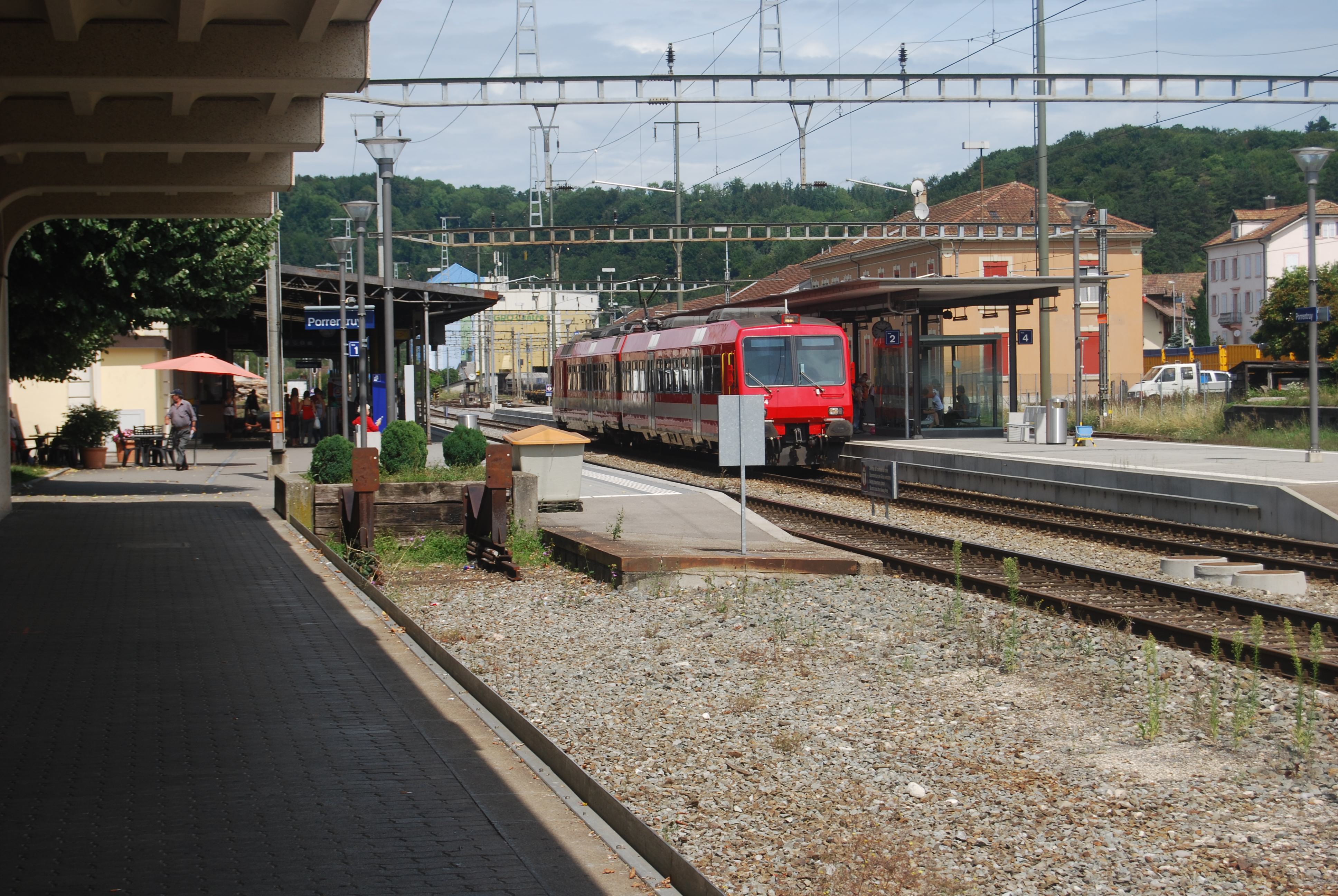 Train station of Porrentruy, canton of Jura, SwitzerlandEsperanto: Stacidomo de Porrentruy, Kantono Ĵuraso, Svislando